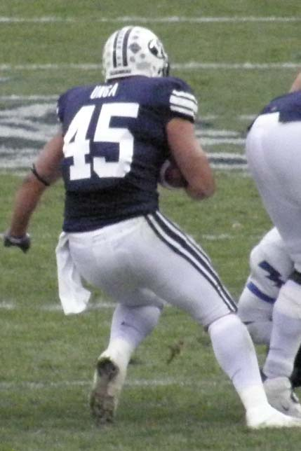 Harvey Unga Runs past the Air Force Defense in 2009.